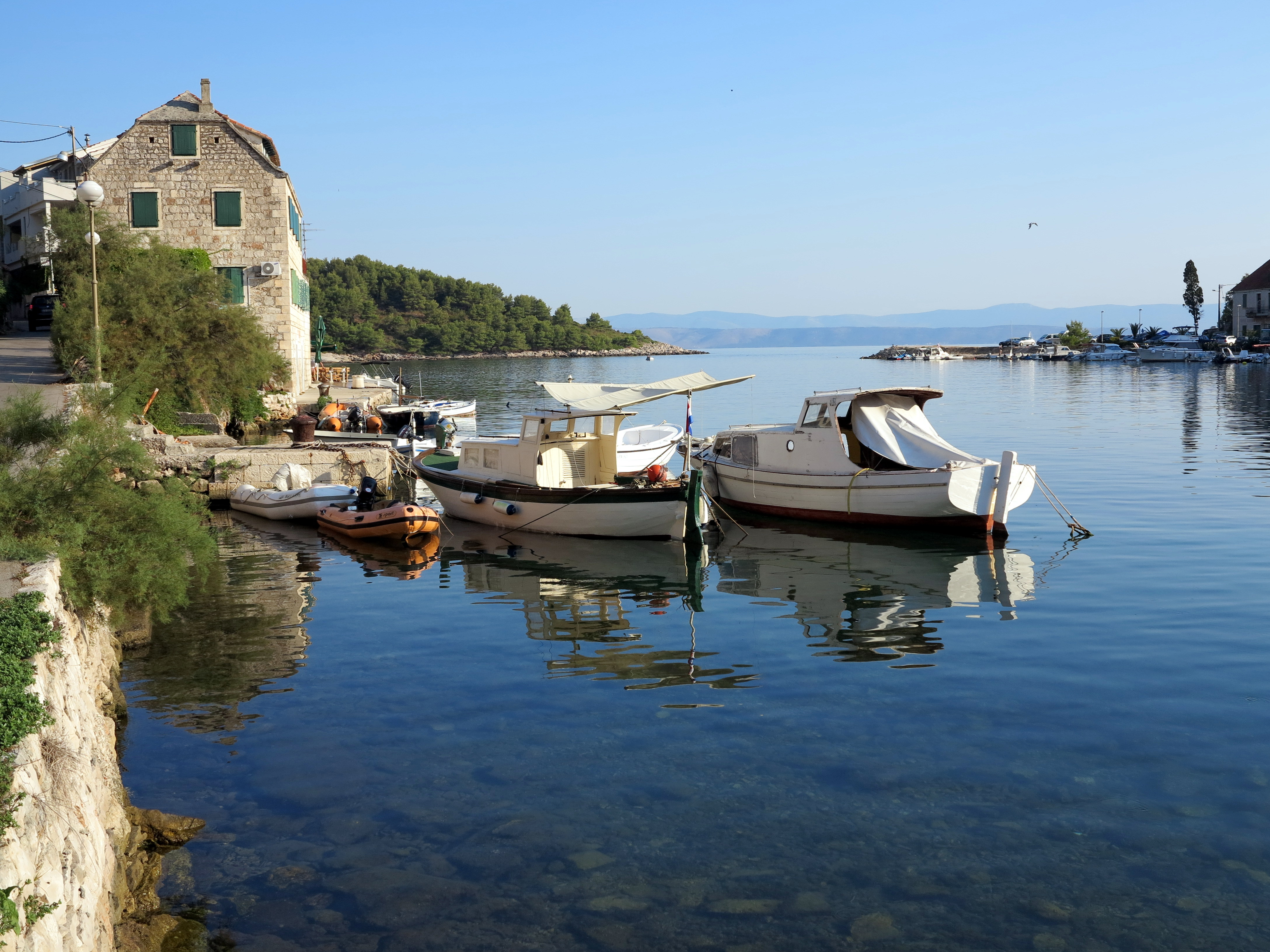 Stomorskaon the island Šolta / Croatia / Adriatic Sea.